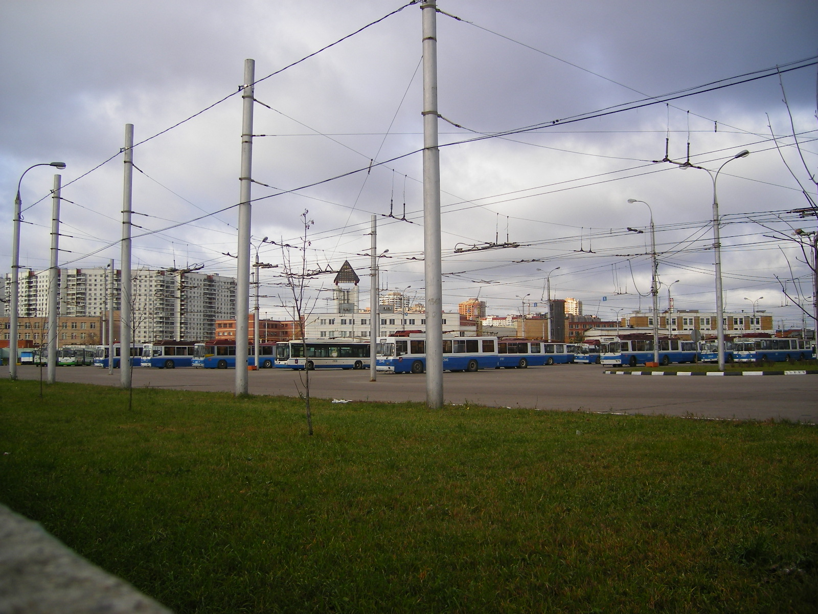 Novokosinsky trolleybus depot in Moscow. Аrea for parking.